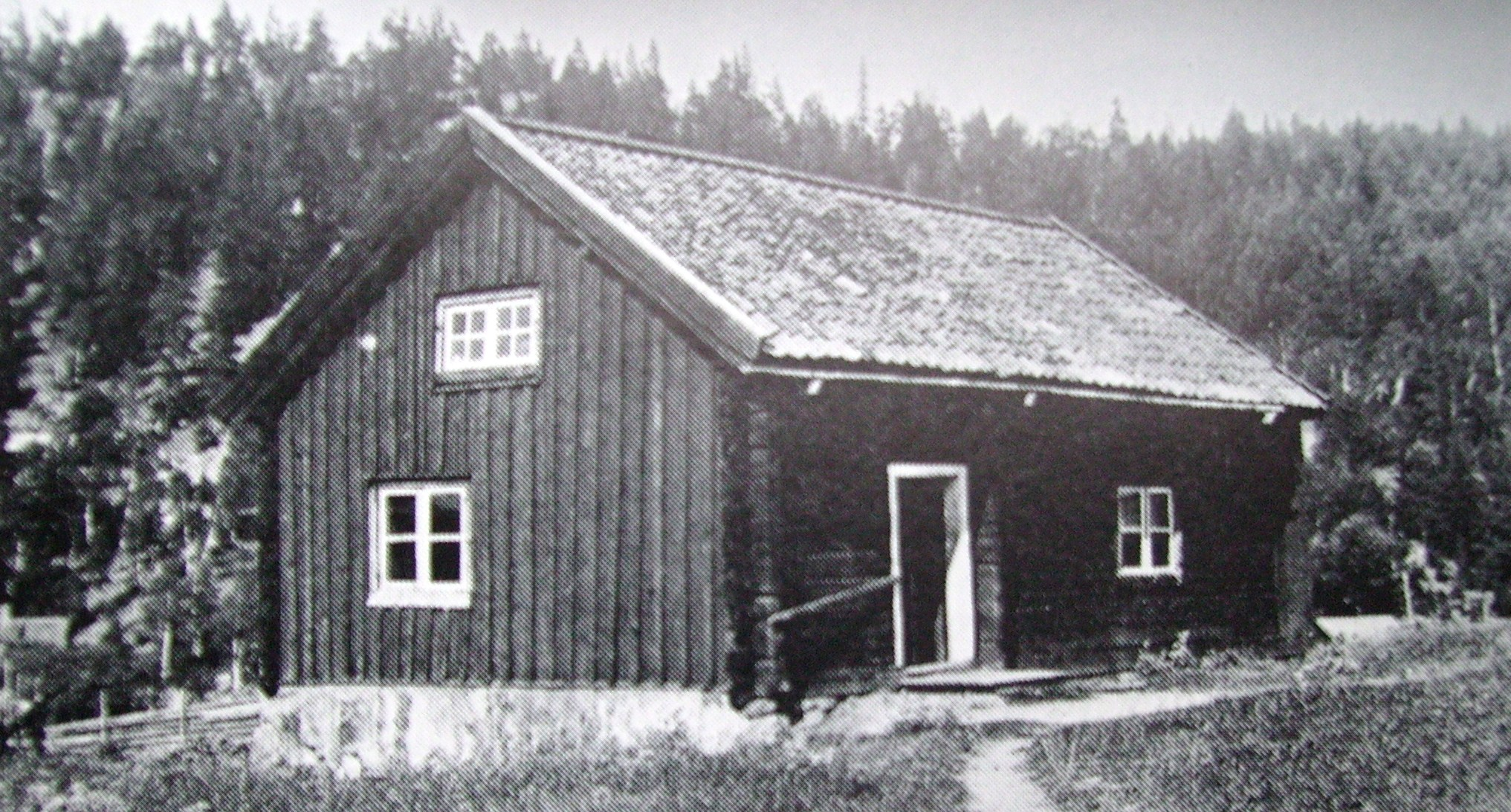 Picture of poor mans cabin in Småland